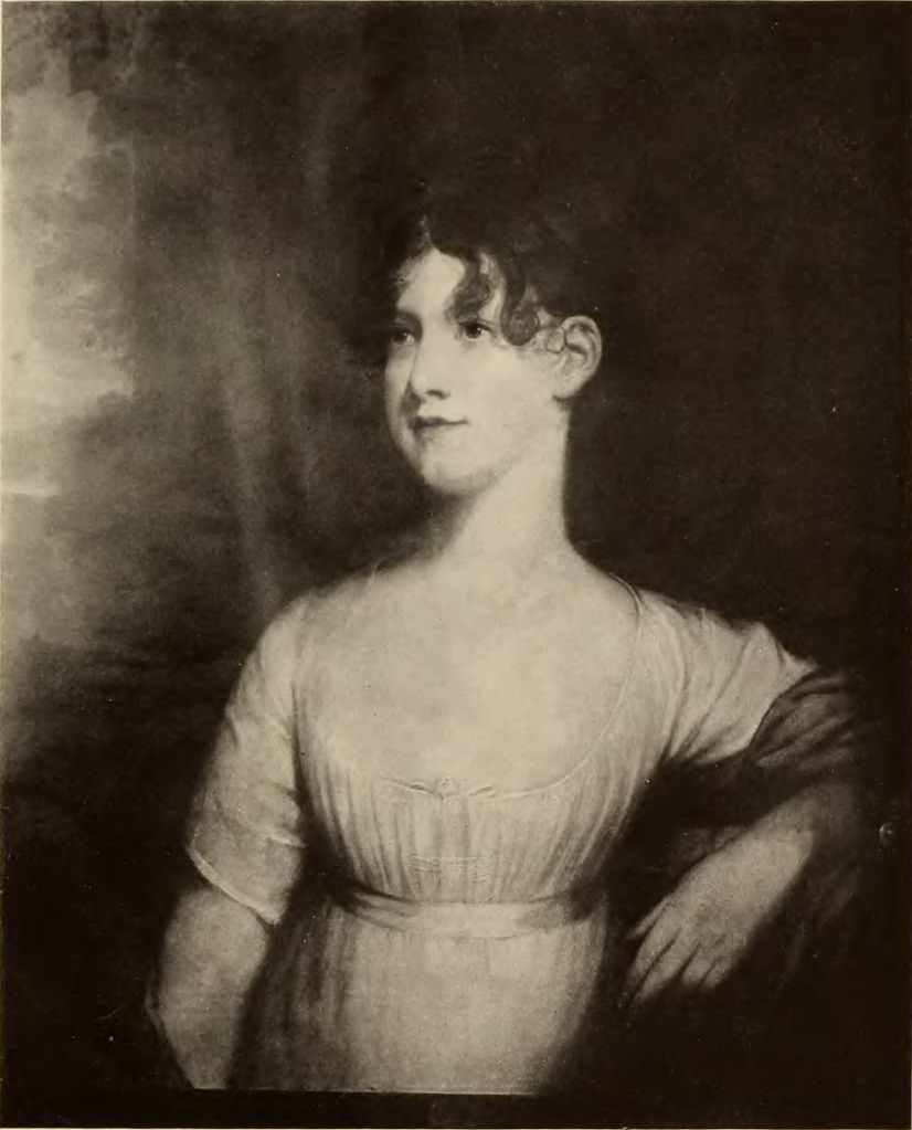 The Founding Collection represents the cornerstone of the Whitney Museum's Art Reference Library. It originated with the personal collections of research material owned by the museum's founder, Gertrude Vanderbilt Whitney, and its first director, Juliana Force.